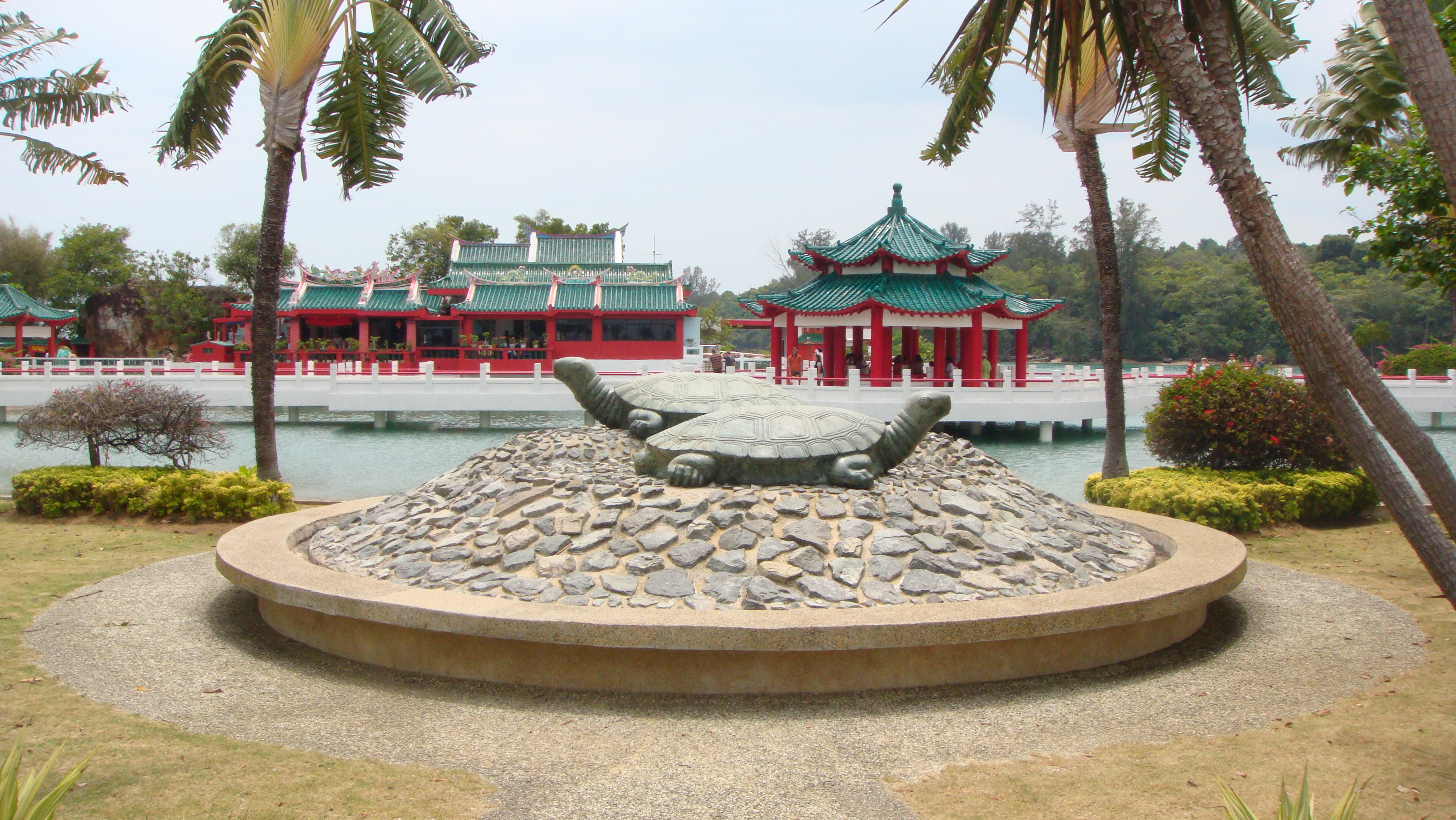 Marble Tortoises on Kusu Island, Near Singapore